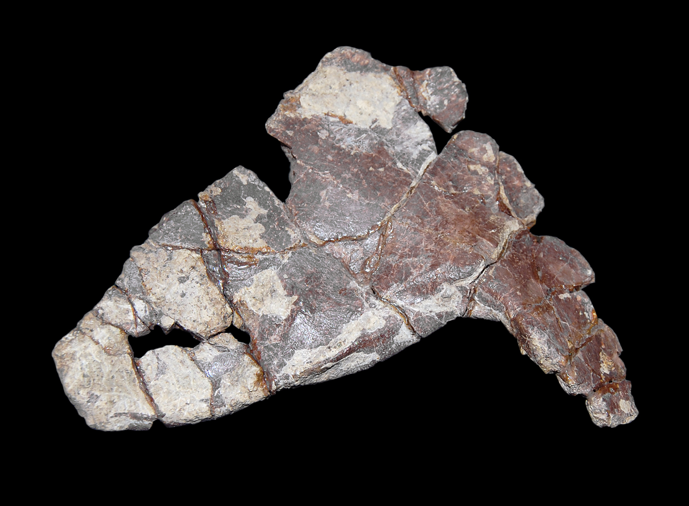 Shell of Kallokibotion, Deva National History Museum.